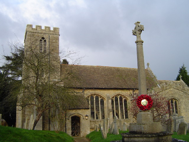 St Andrew's parish church, Thornhaugh, Soke of Peterborough, seen from the south, with the parish war memorial on the right